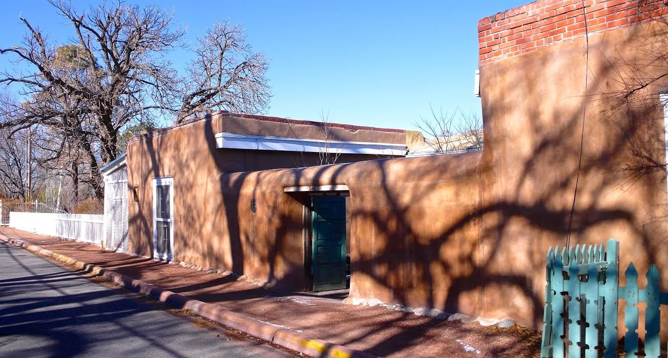 Our offices are located in the iconic El Zaguan midway up the historic Canyon Road in Santa Fe, New Mexico.